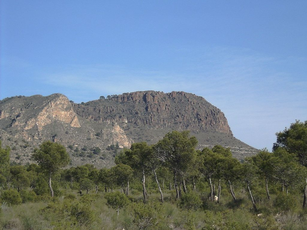 Cancarix, Hellin, Albacete, Spain. Natural monument of the "piton volcanico" in Cancarix. South-west side. December 2005.